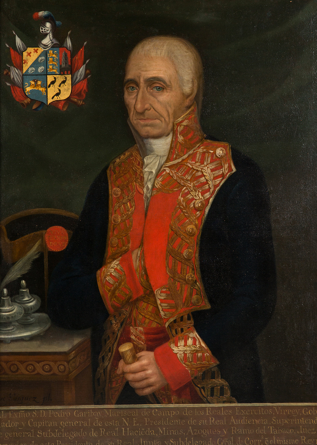 Viceroy Pedro de Garibay